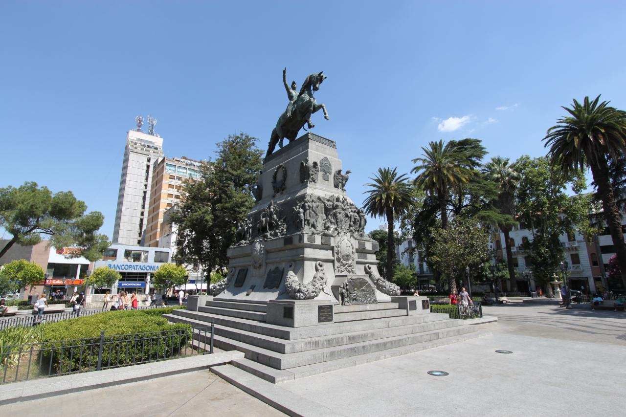 José de San Martín memorial. Located at San Martin Square. Cordoba City, Argentina.